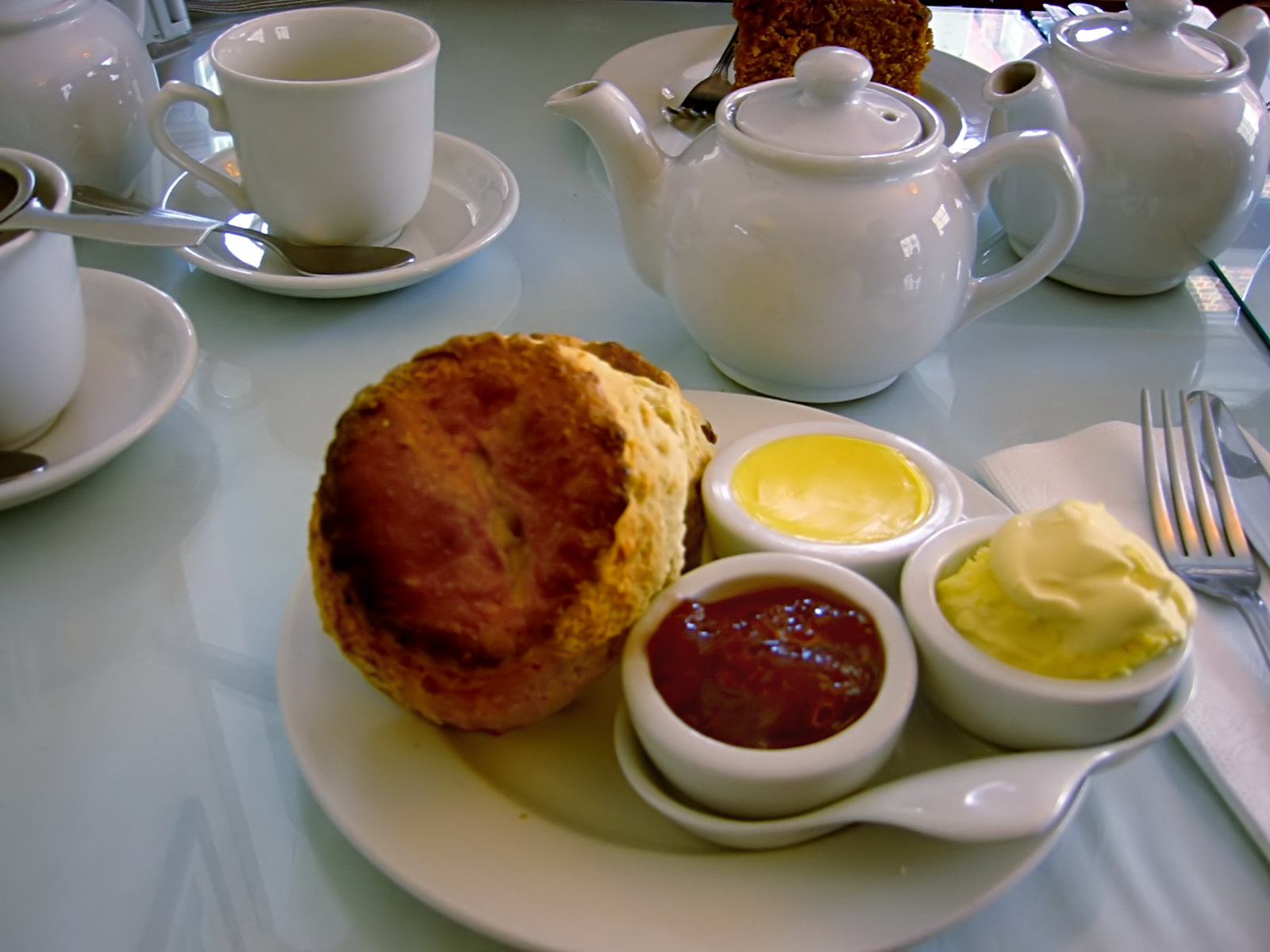 Scones with butter, jam and clotted cream.